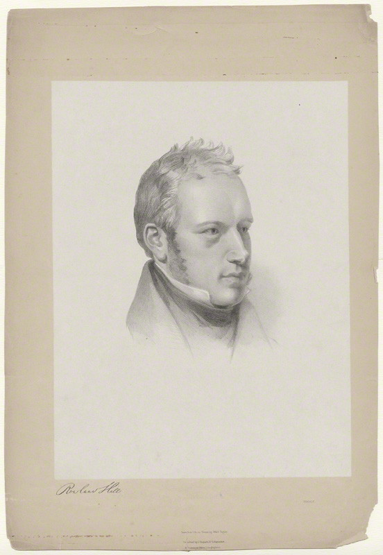 Lithograph of Rowland Hill by (Isaac) Weld Taylor, printed by Hullmandel & Walton, published by Joseph Hogarth